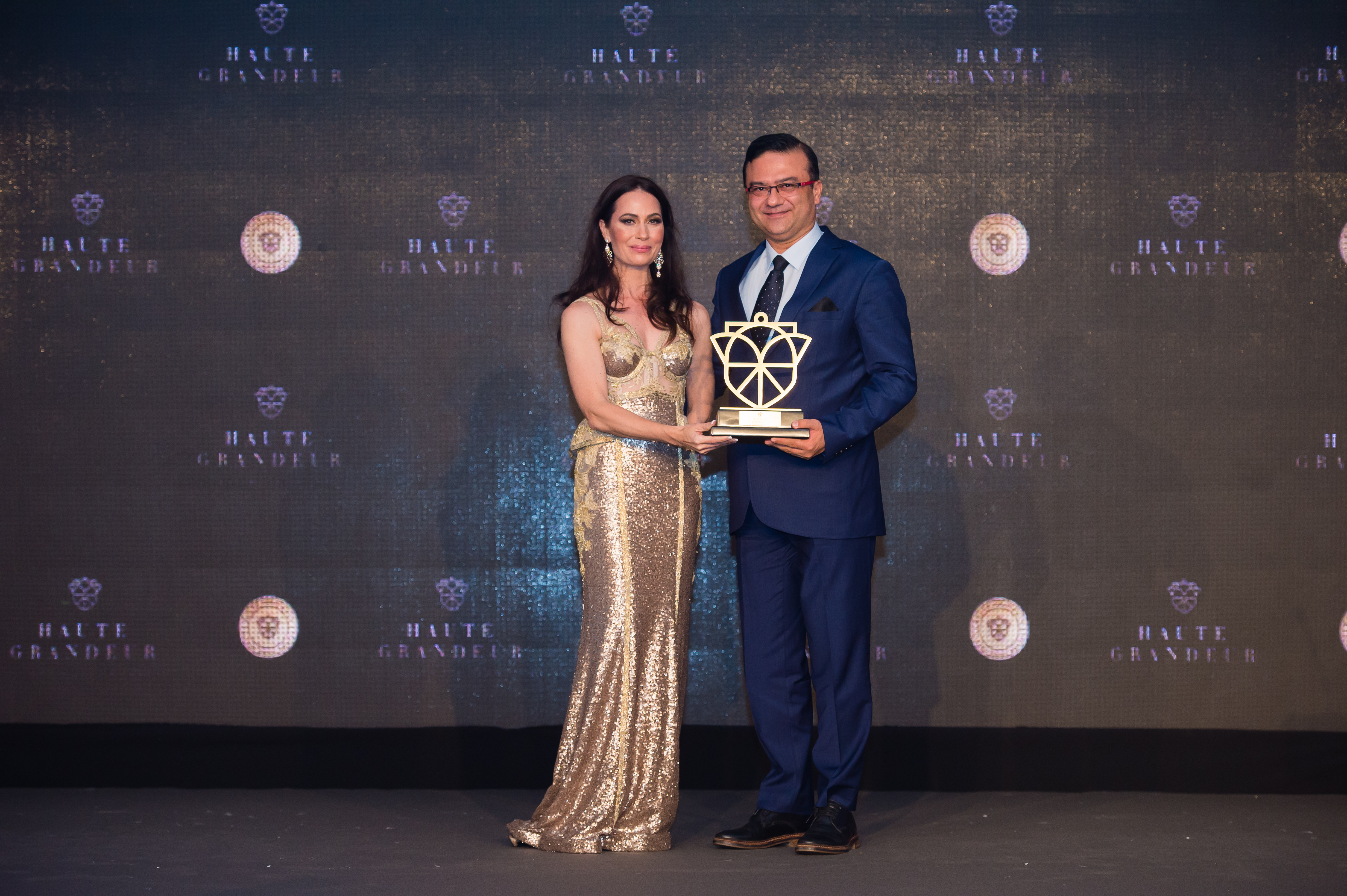 Anoop Suri Receiving Best GM award